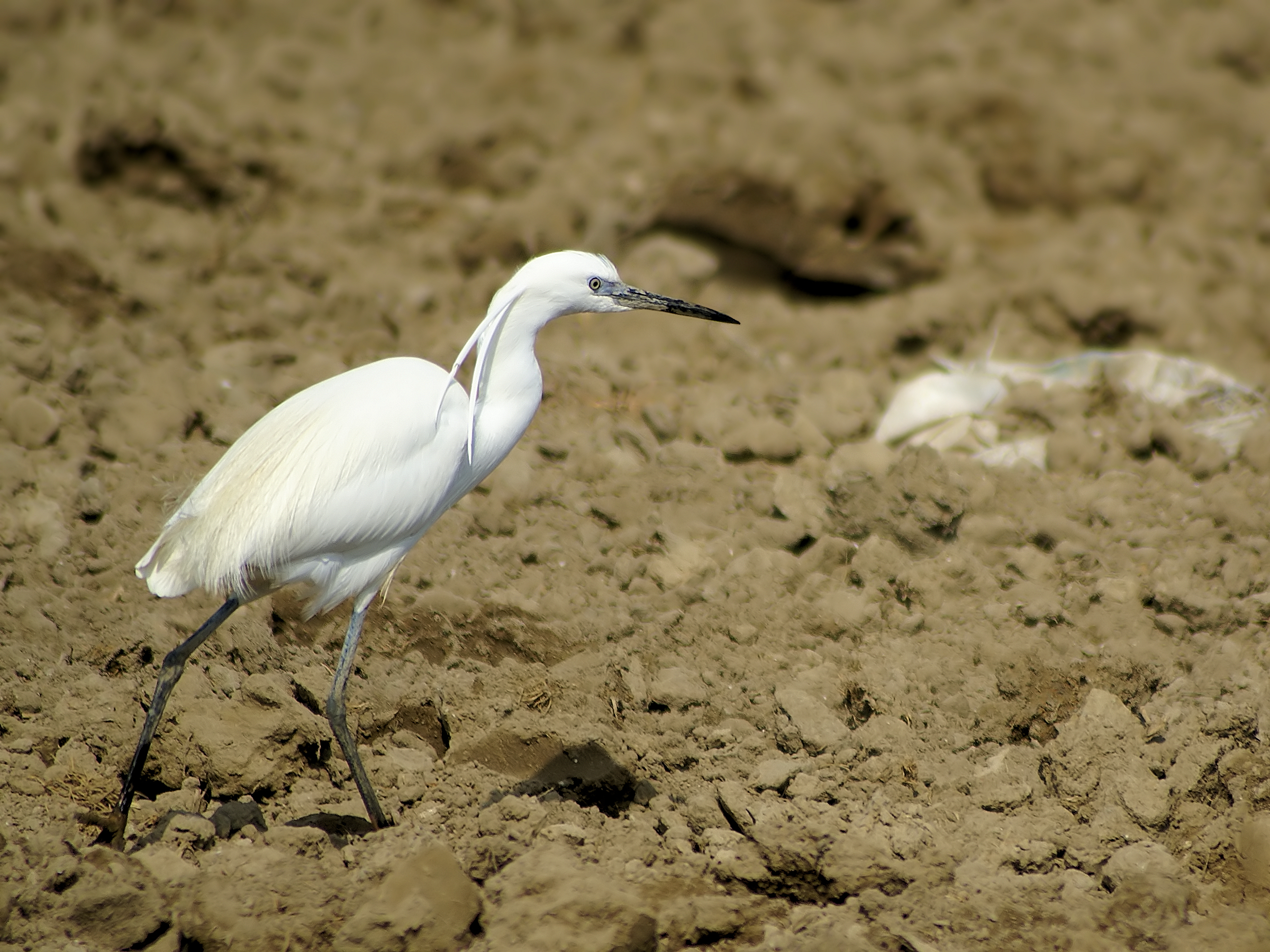 Near Camarles, Baix Ebre, Catalonia, Spain